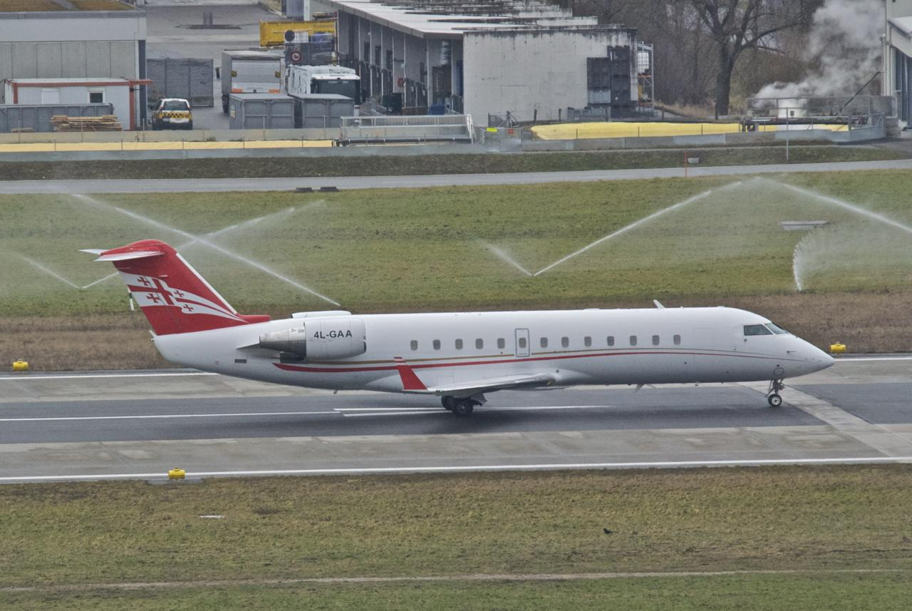 A Canadair CL-600-2B19 Challenger 850...